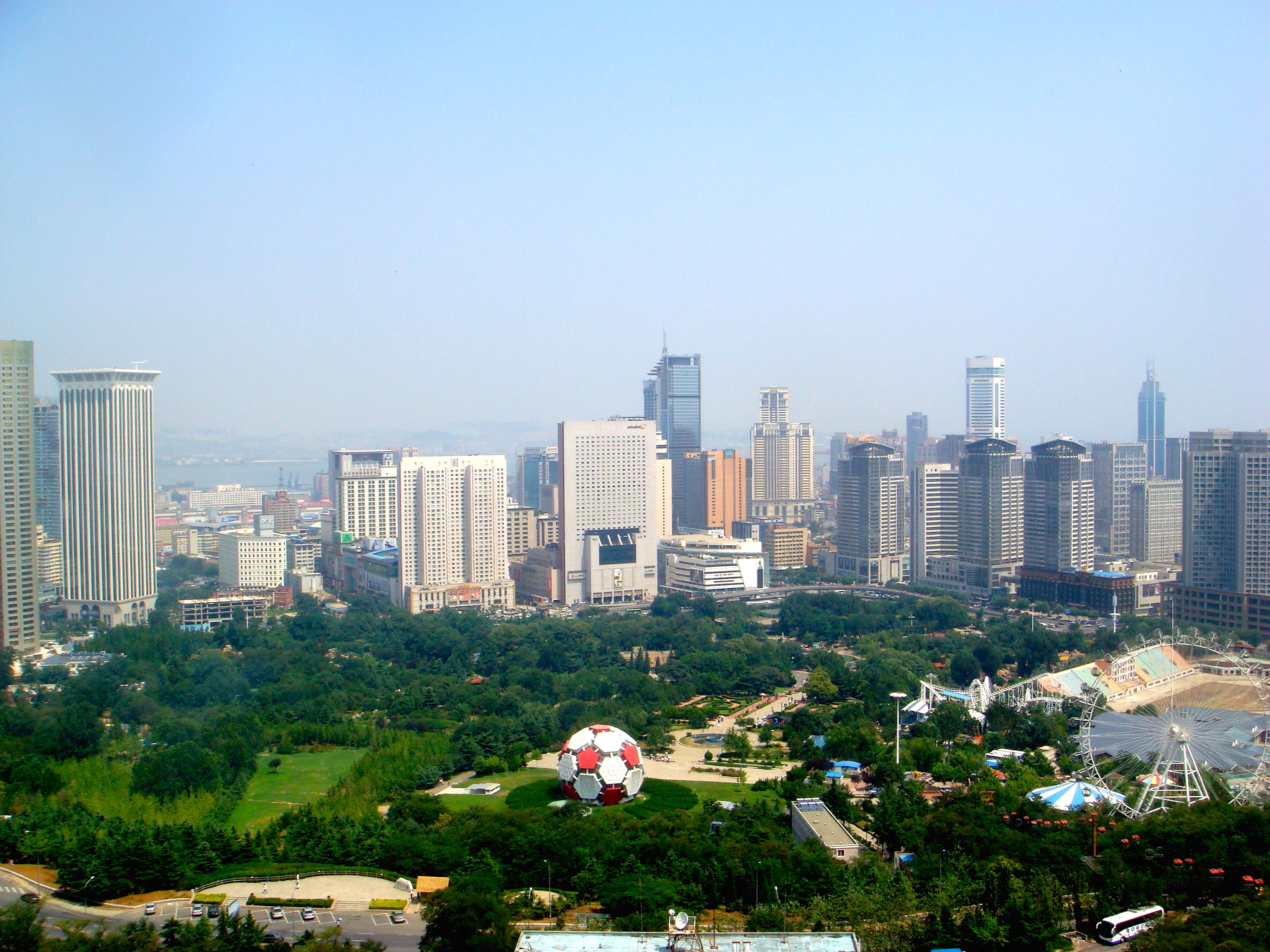 Dalian Skyline, Dalian, China